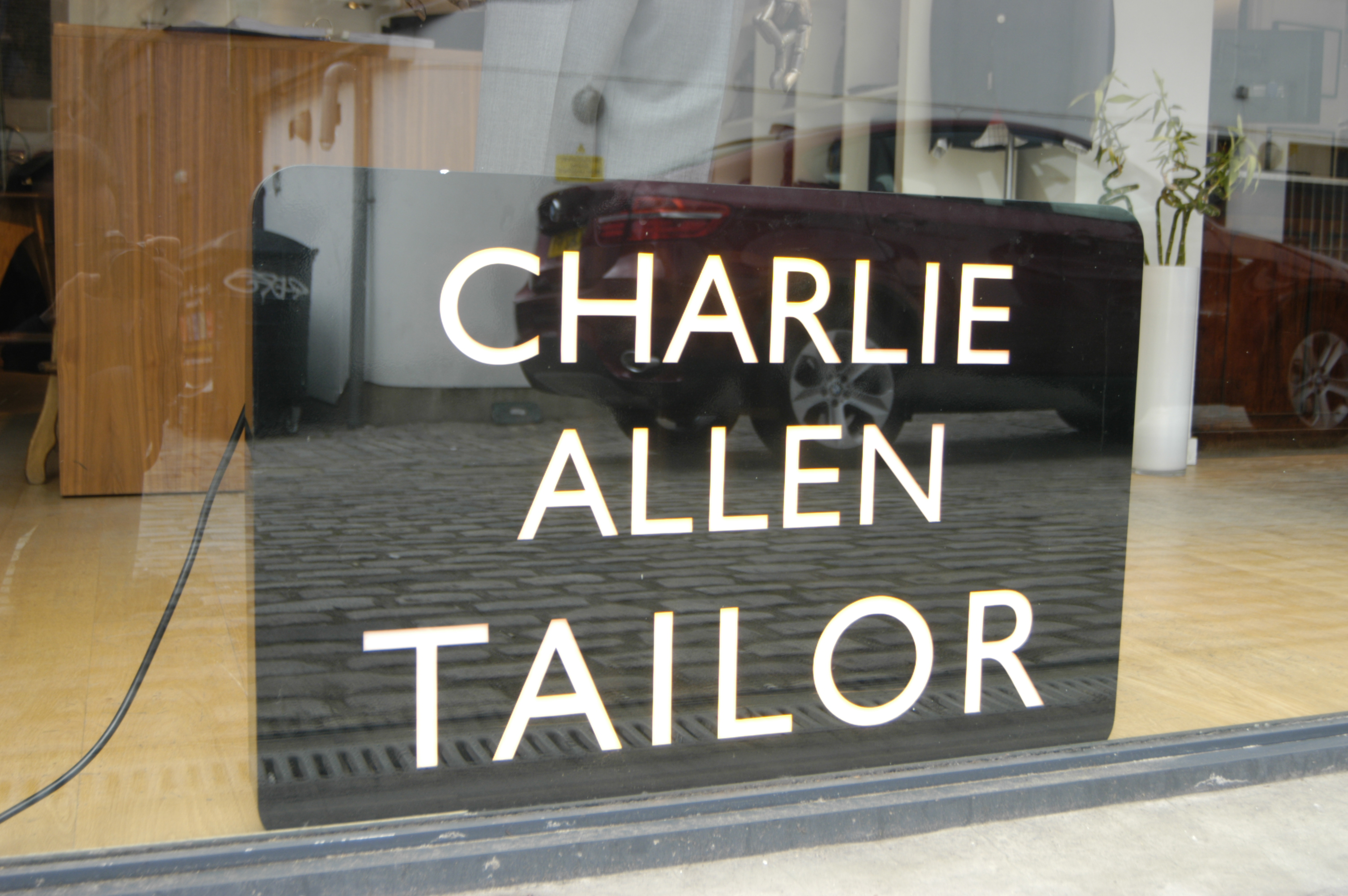 photo of Charlie Allen's signage by me Rodolph de Salis.